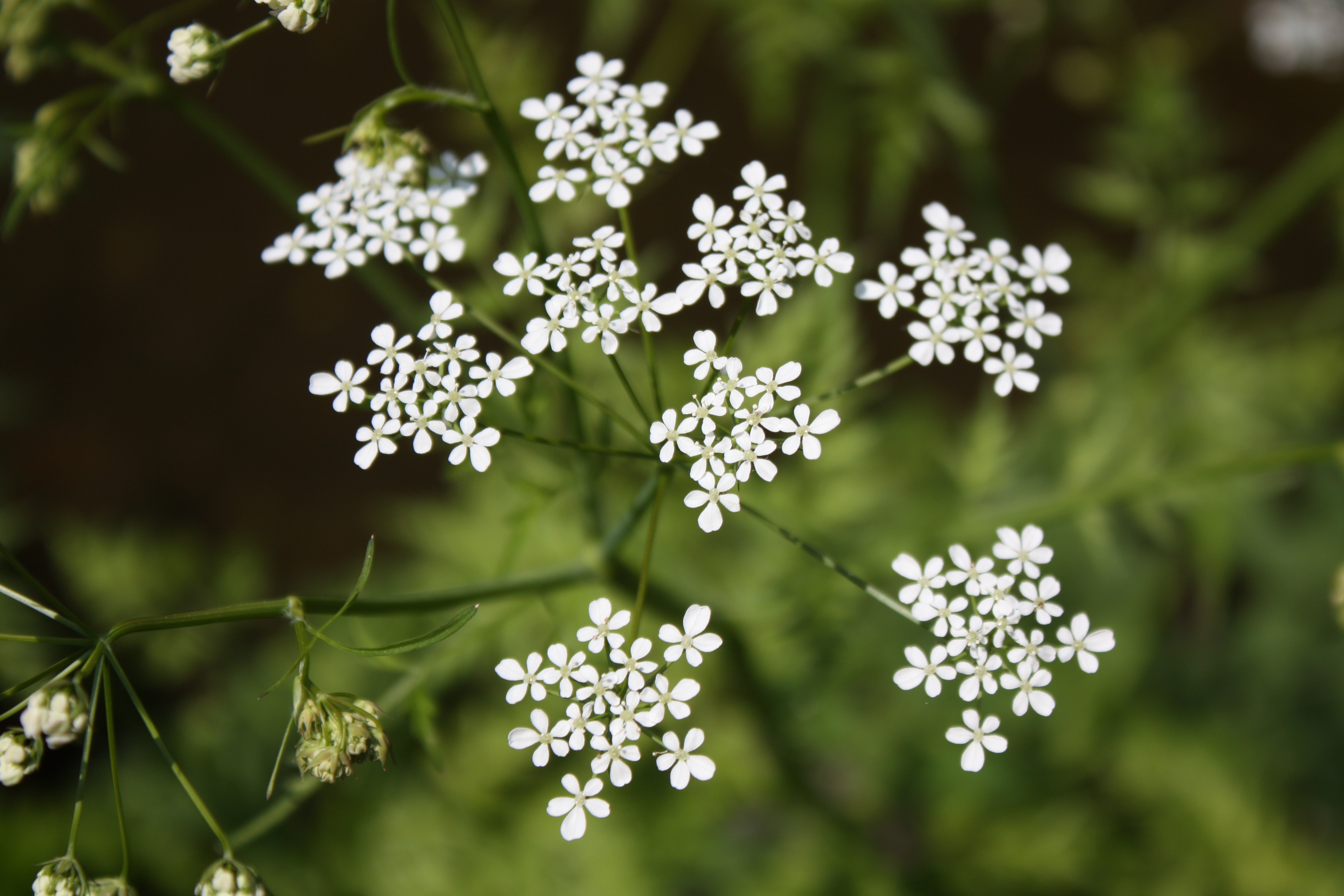 Anthriscus sylvestris